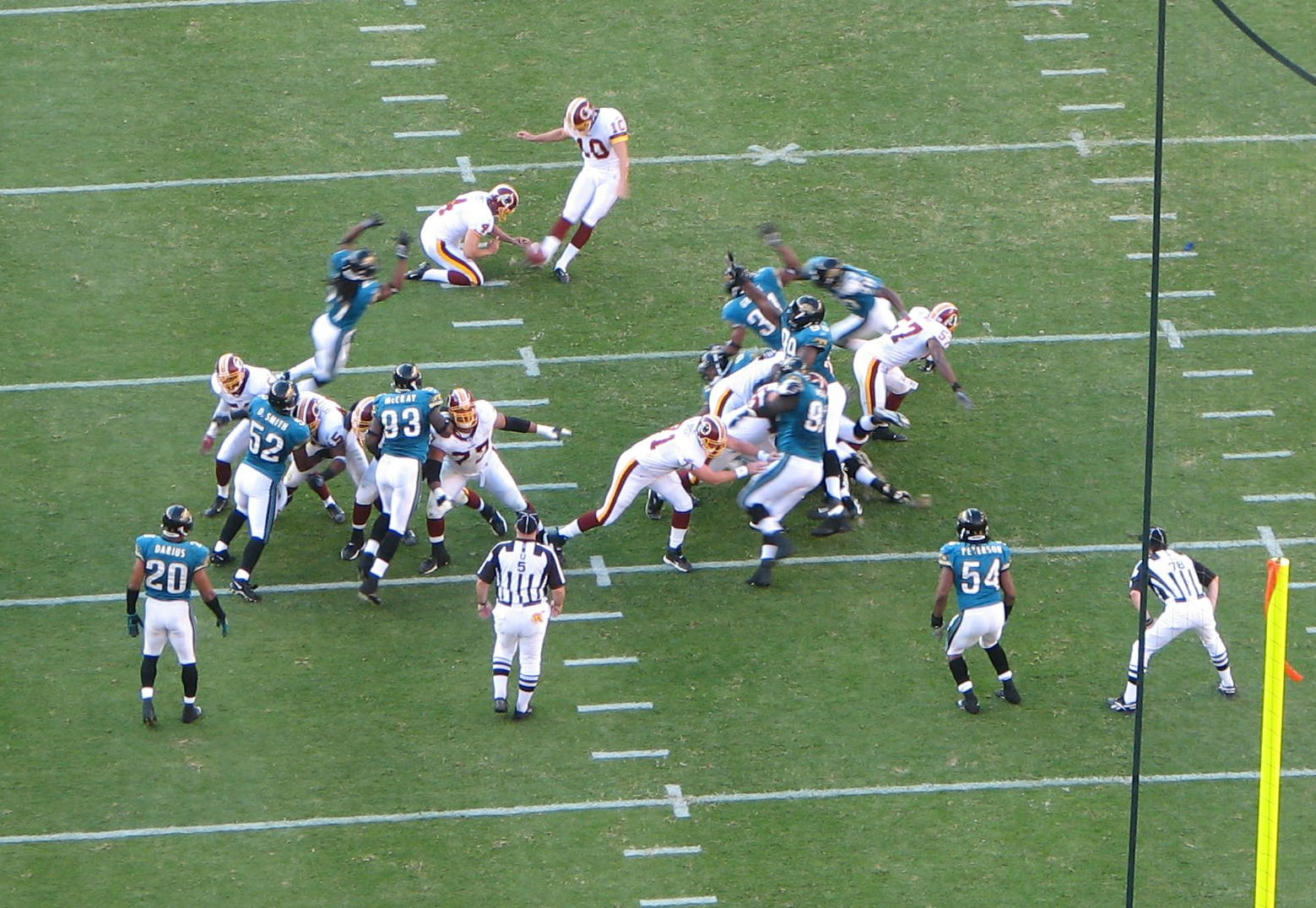 Washington Redskins vs Jacksonville Jaguars at FedExField, Landover, Maryland, USA